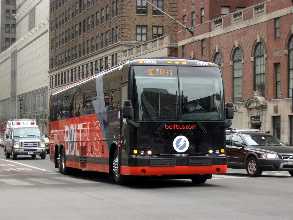 BoltBus #0800 in New York City on the West Side of Manhattan.